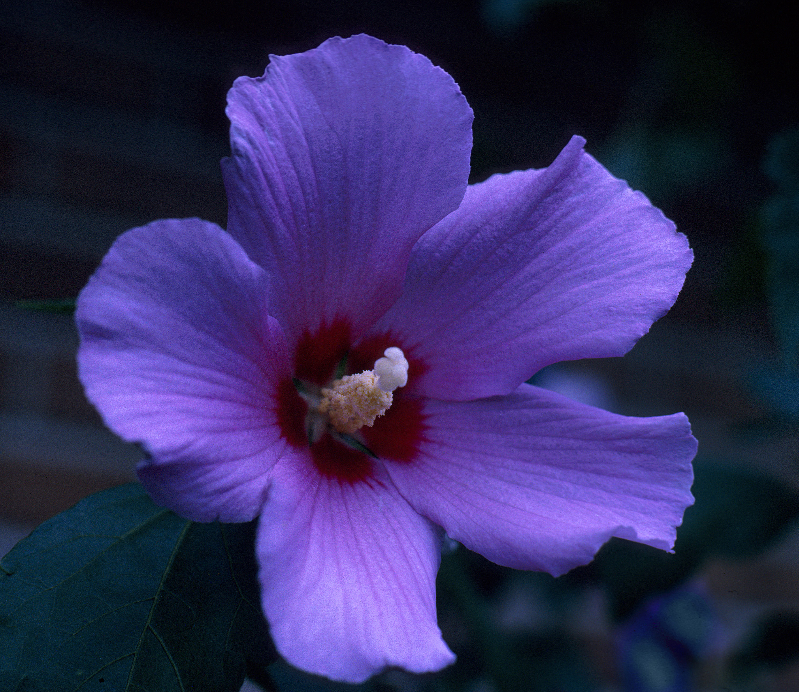 Rose of Sharon or Althea -- Hibiscus syriacus